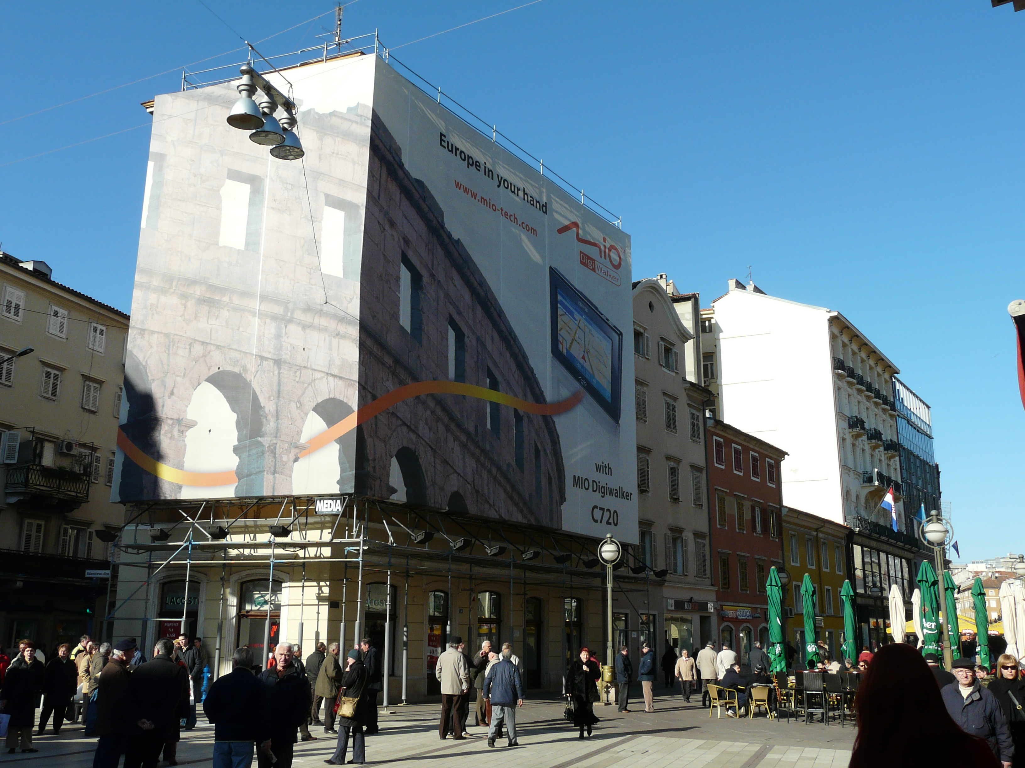 View on left side of Korzo str from Kula Kola.